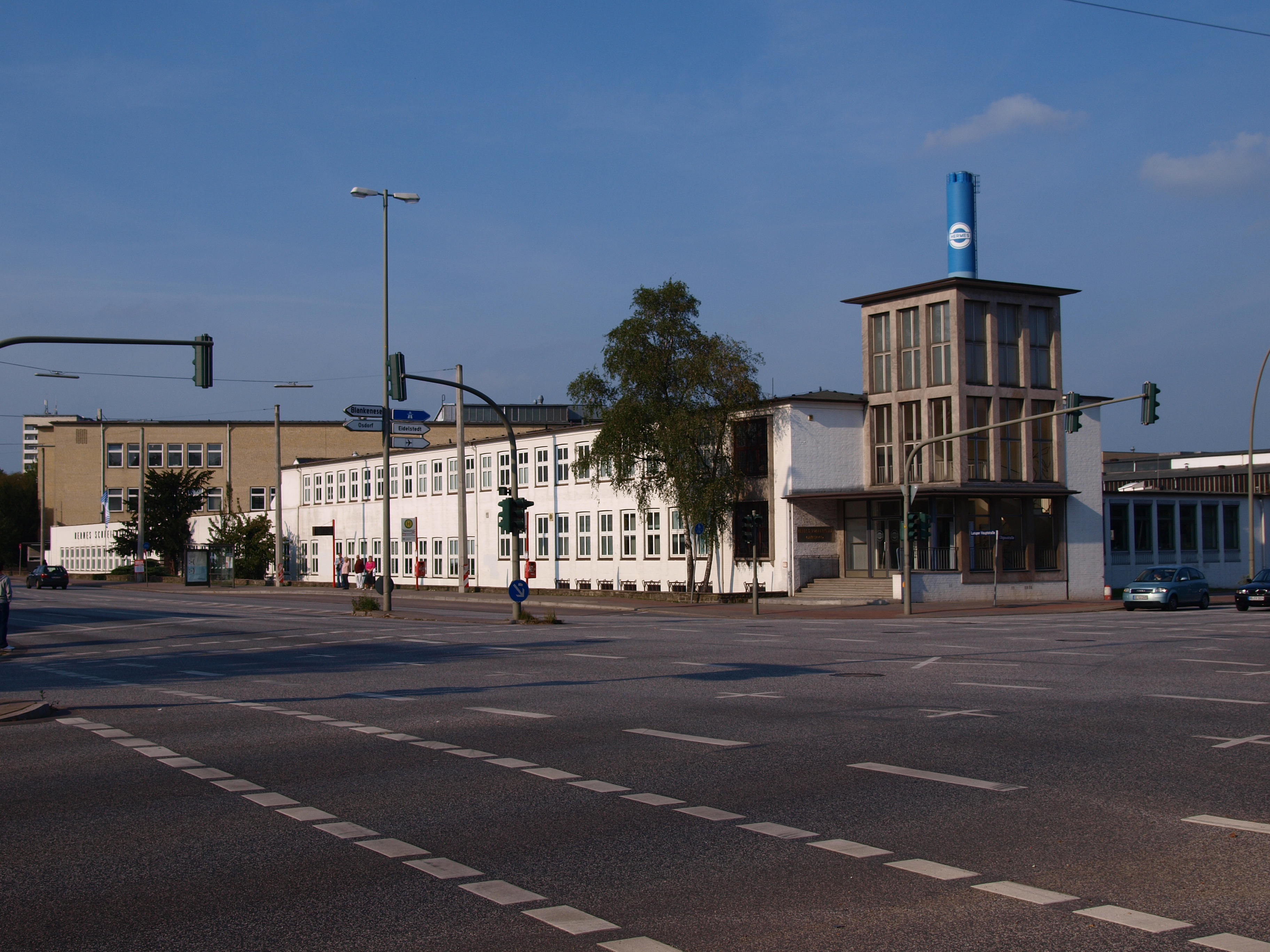 Hermes Schleifmittel, Hamburg-Lurup, Germany. The building is classified as cultural heritage monument.